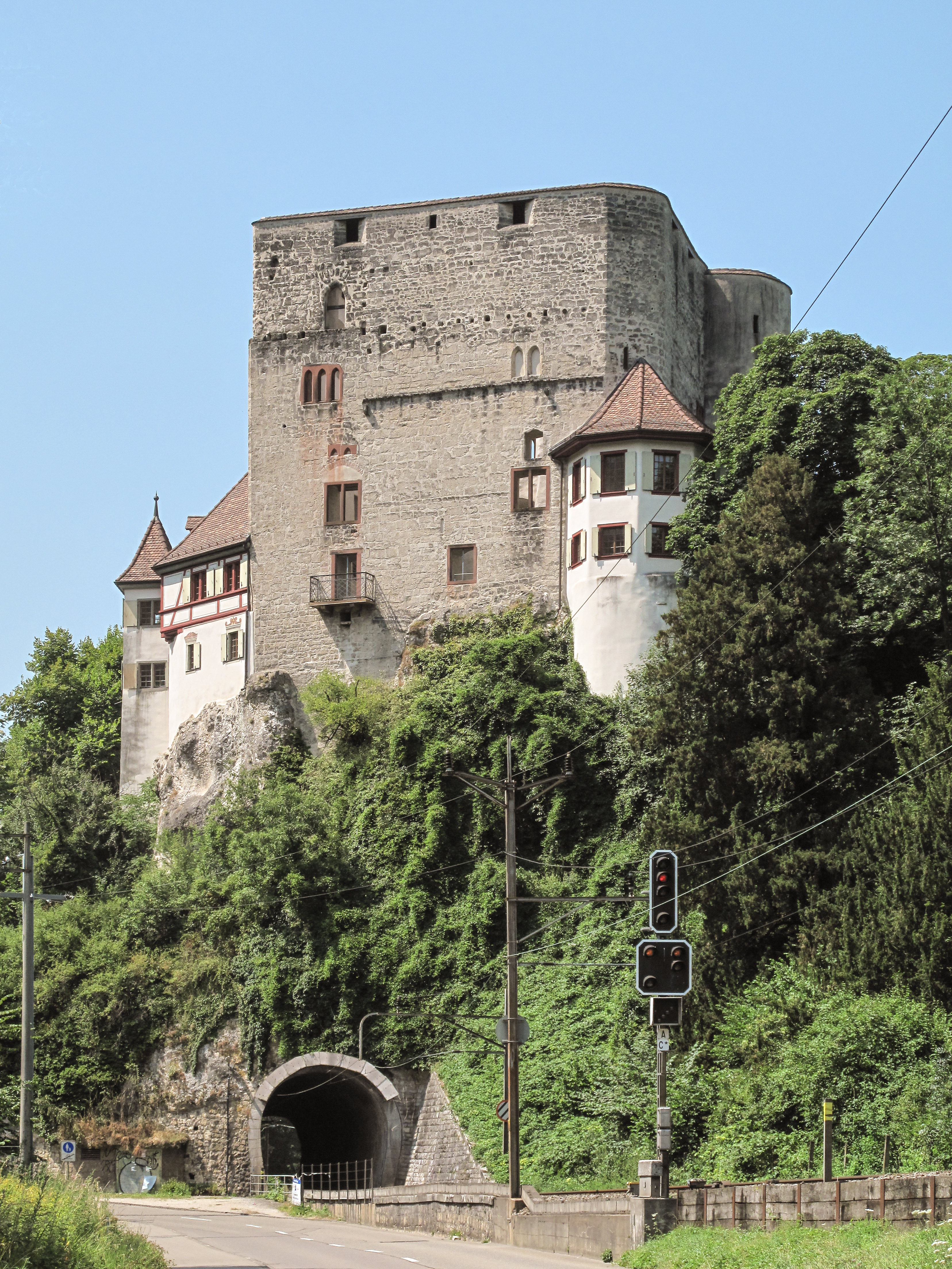 Duggingen,castle: Schloss Angenstein